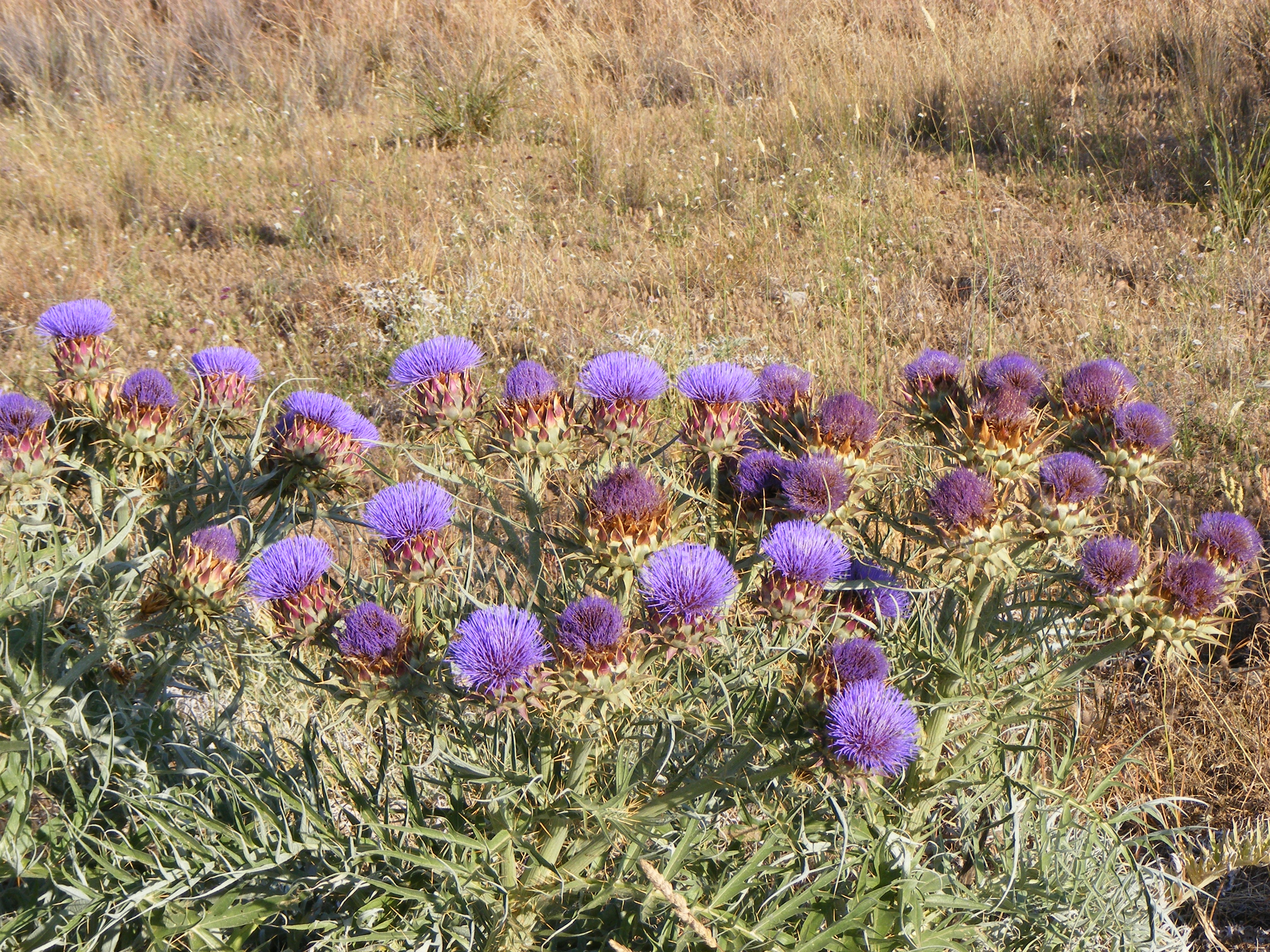 A Patch of Cynara cardunculus (Artichoke thistle) in flower. A lovely weed at Cobbler Creek, Adelaide, South Australia